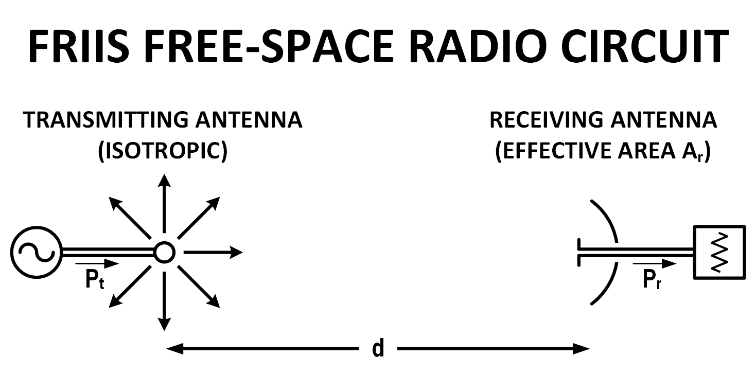 Portrayal of Harald T. Friis' diagram from his article describing the physical components of the Friis Transmission Formula.